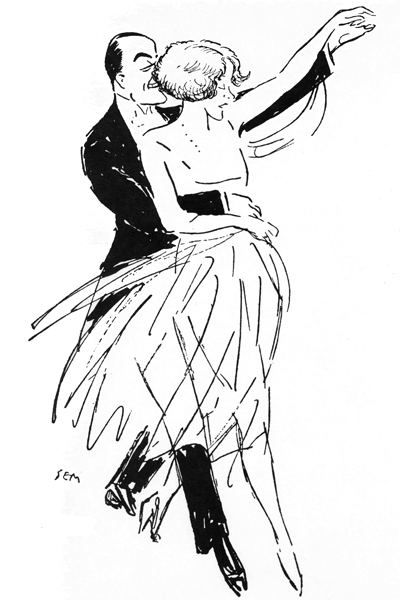 The dancers Leonora Hughes and Maurice Mouvet